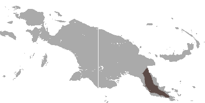 Doria's Tree Kangaroo (Dendrolagus dorianus) range